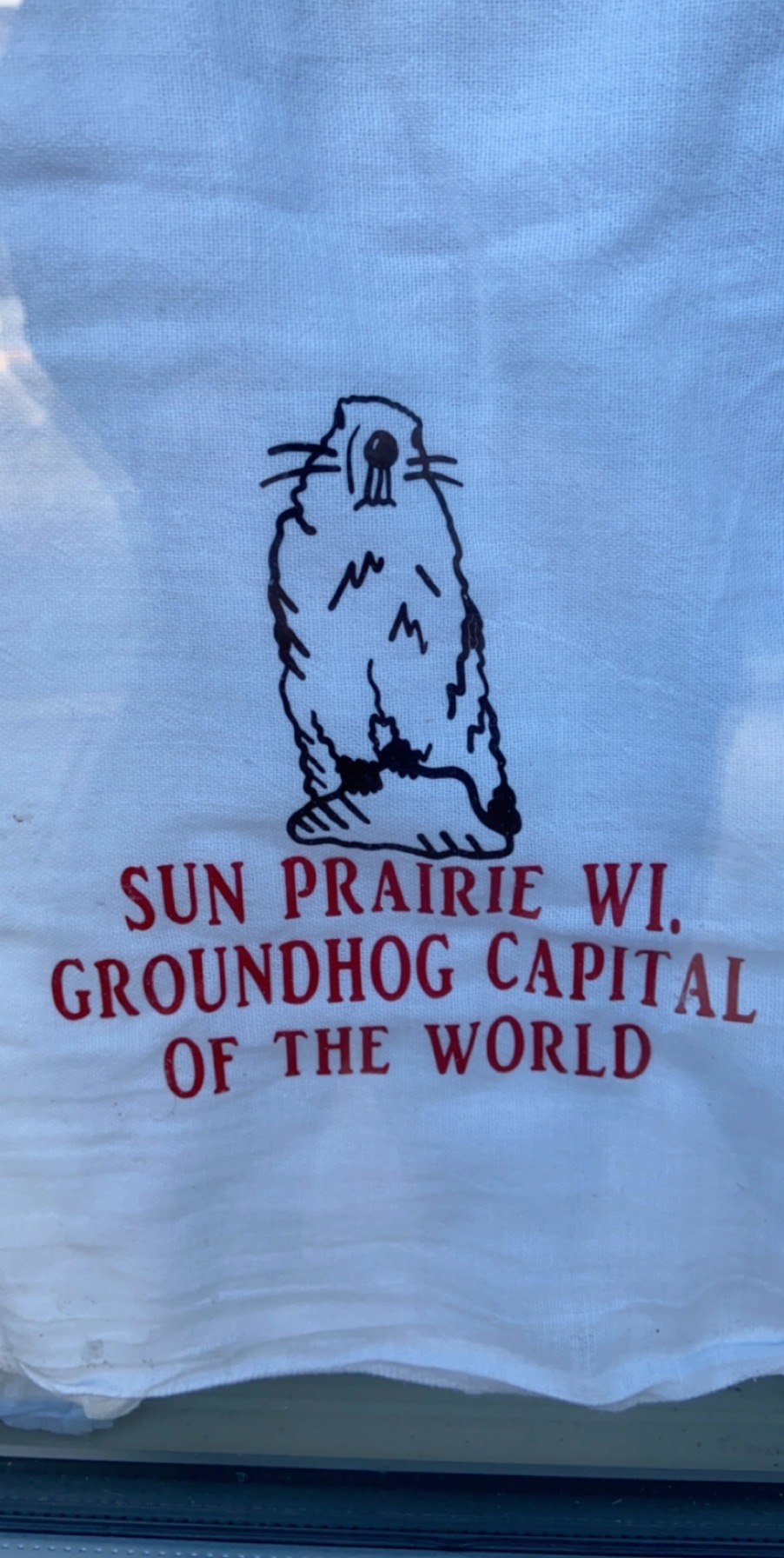 Jimmy the Groundhog merchandise being sold in sun prairie for groundhogs day